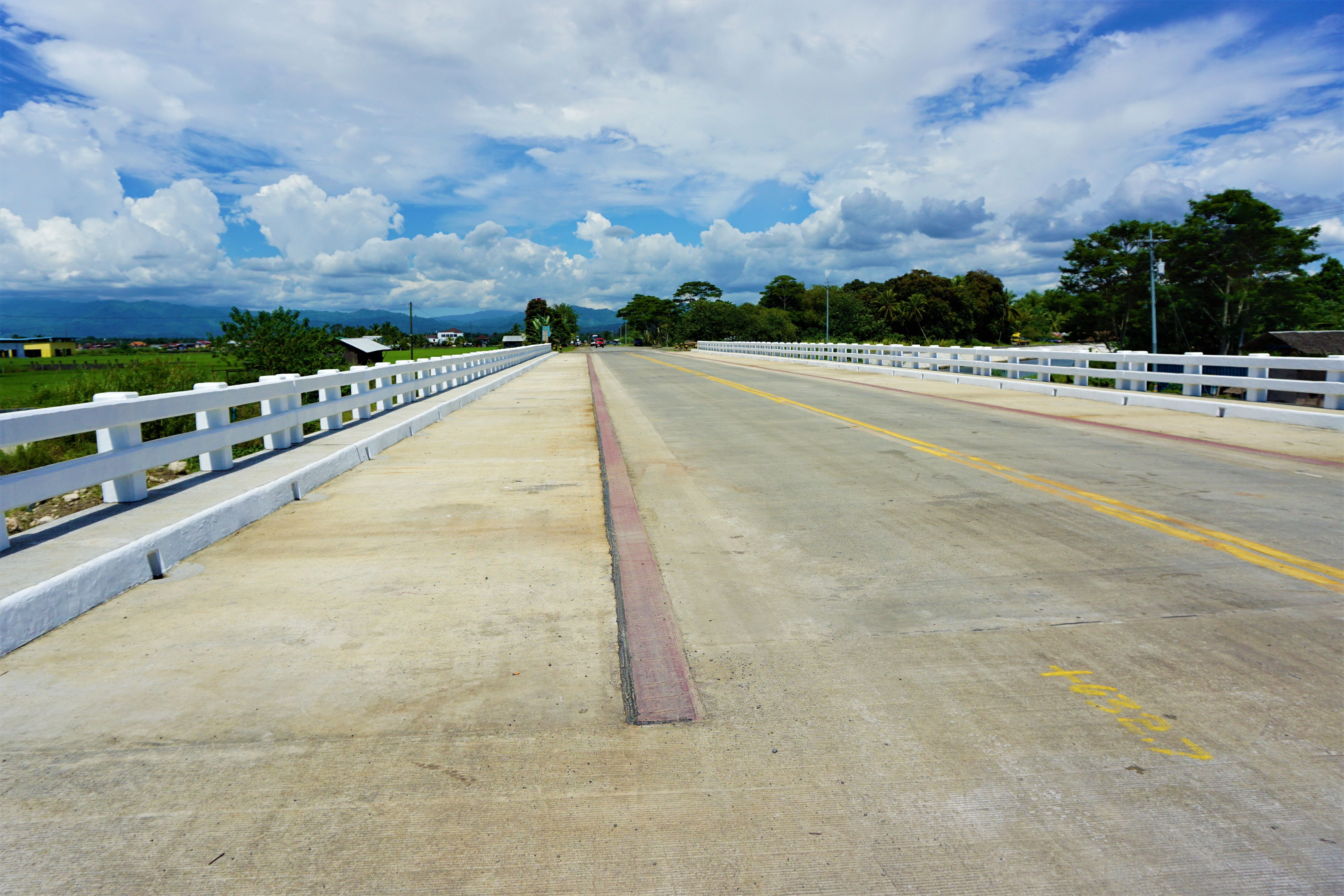 Mayor Democrito B. Plaza II Avenue in Butuan City. A diversion road to avoid traffic congestion.